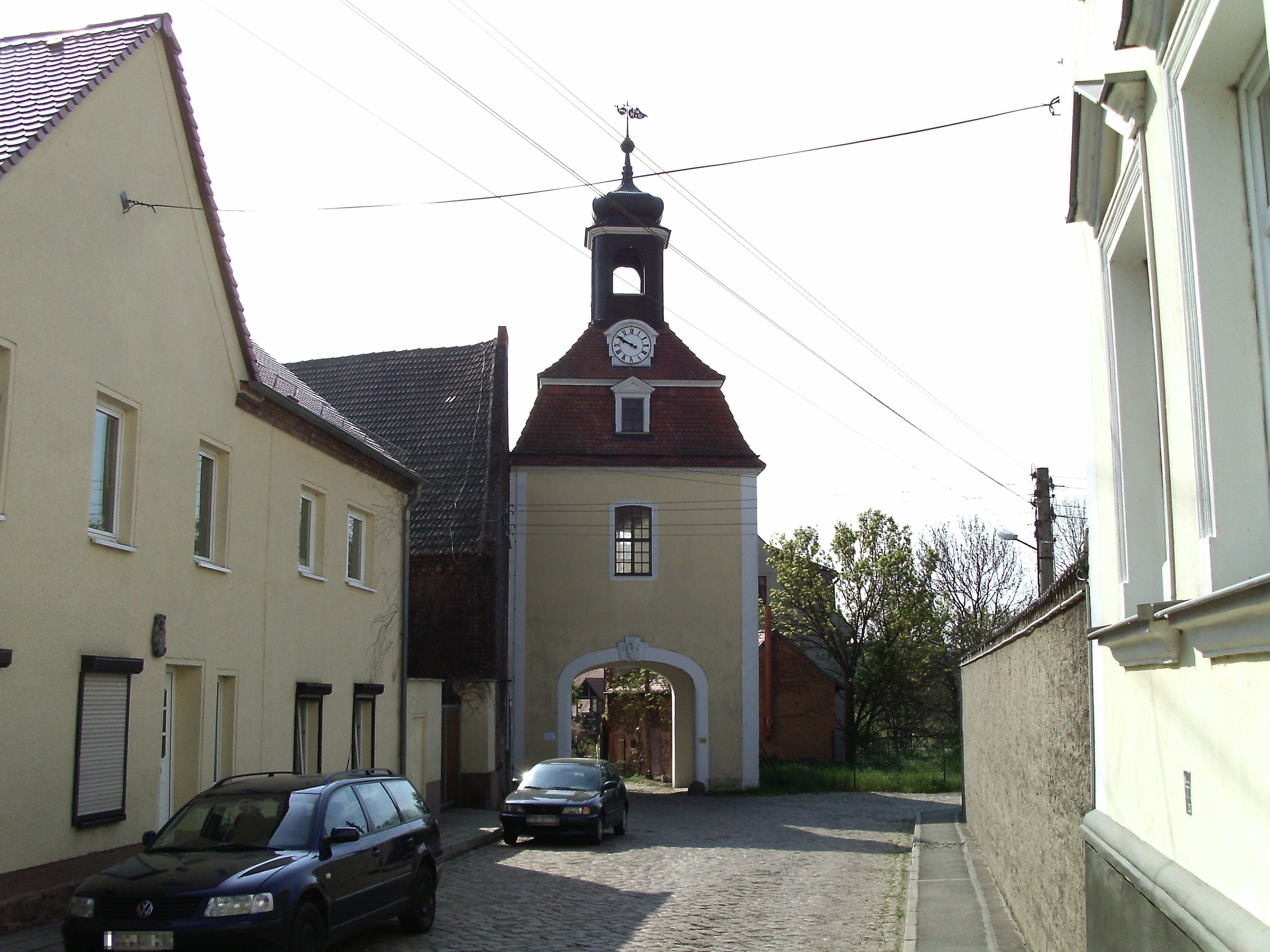 Gateway tower of Wehlitz estate (Schkeuditz, Nordsachen district, Saxony)